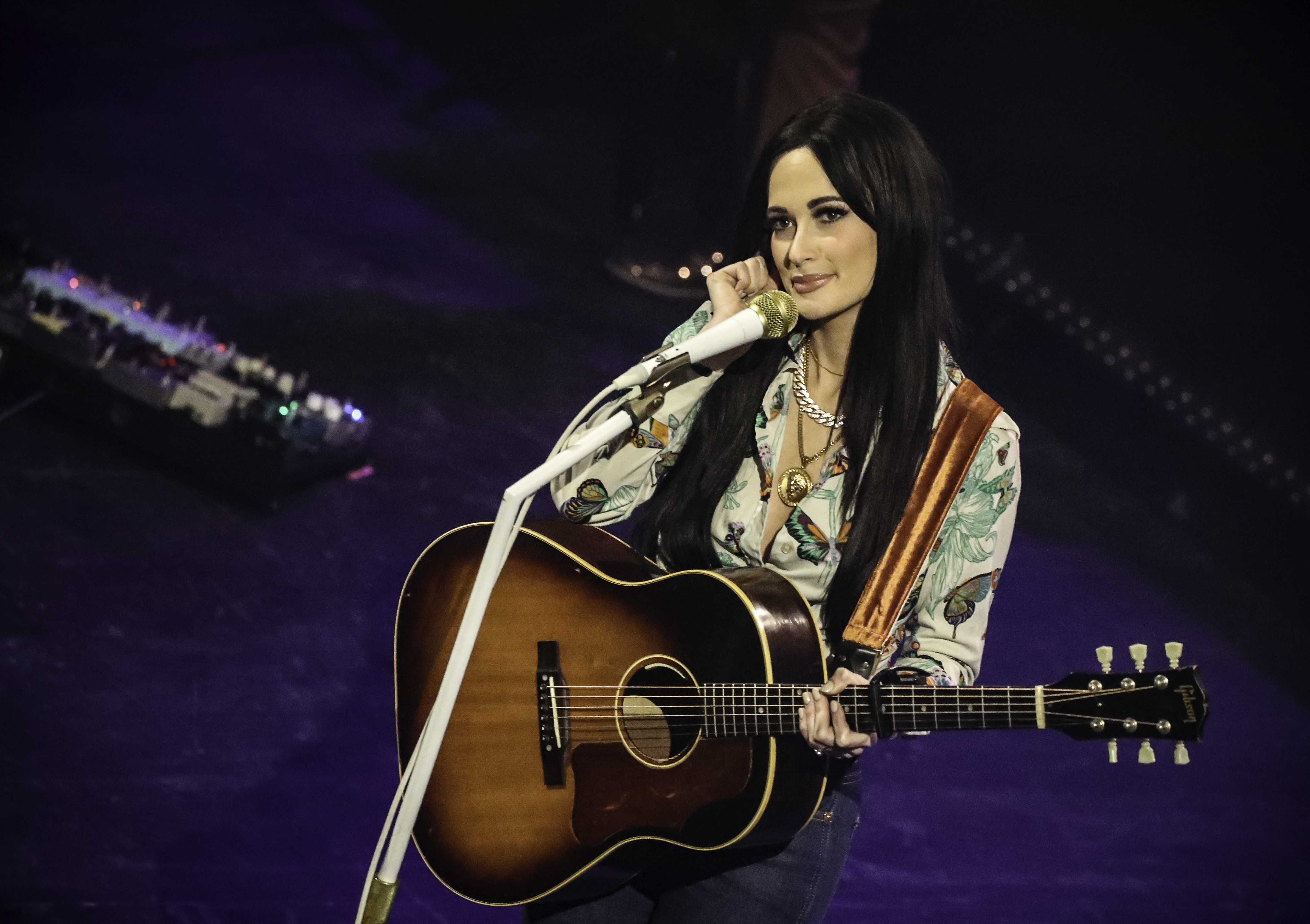 Kacey Musgraves - Palace Theatre St. Paul